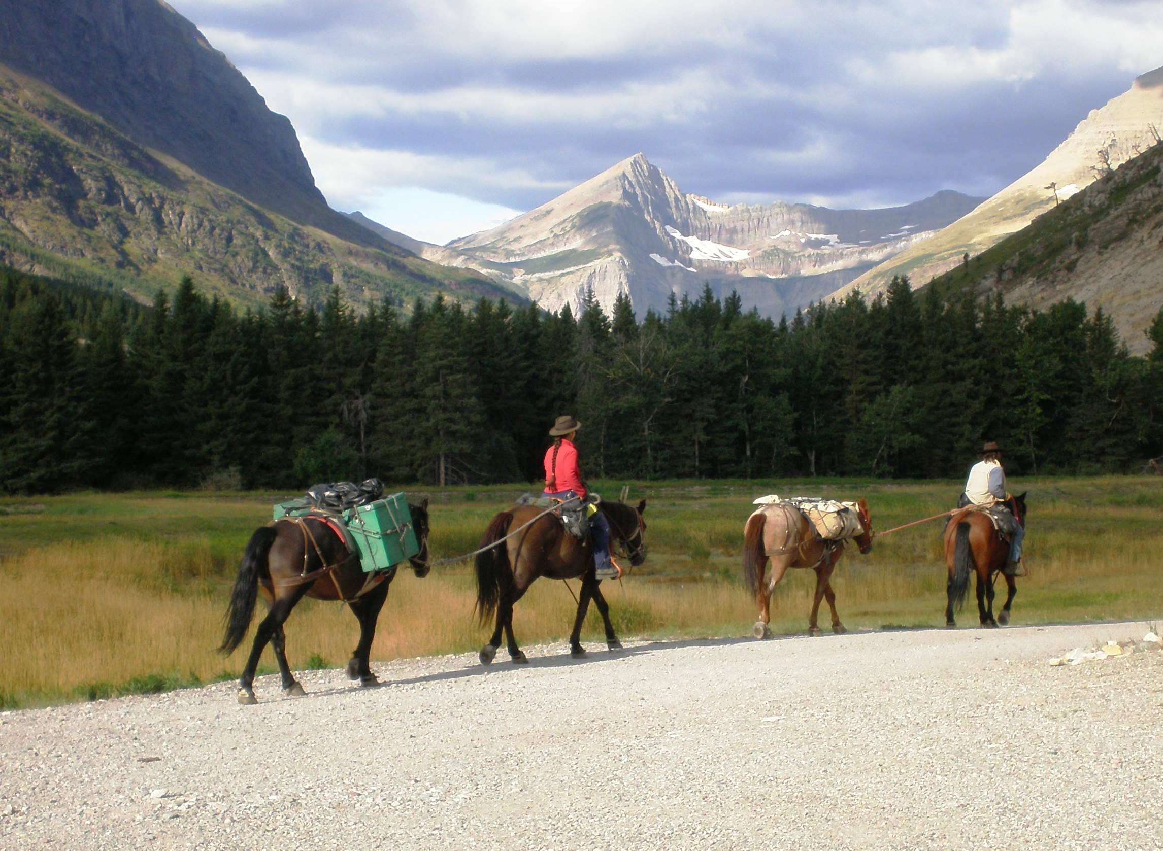 Epic Continetnal Divide journay on horseback